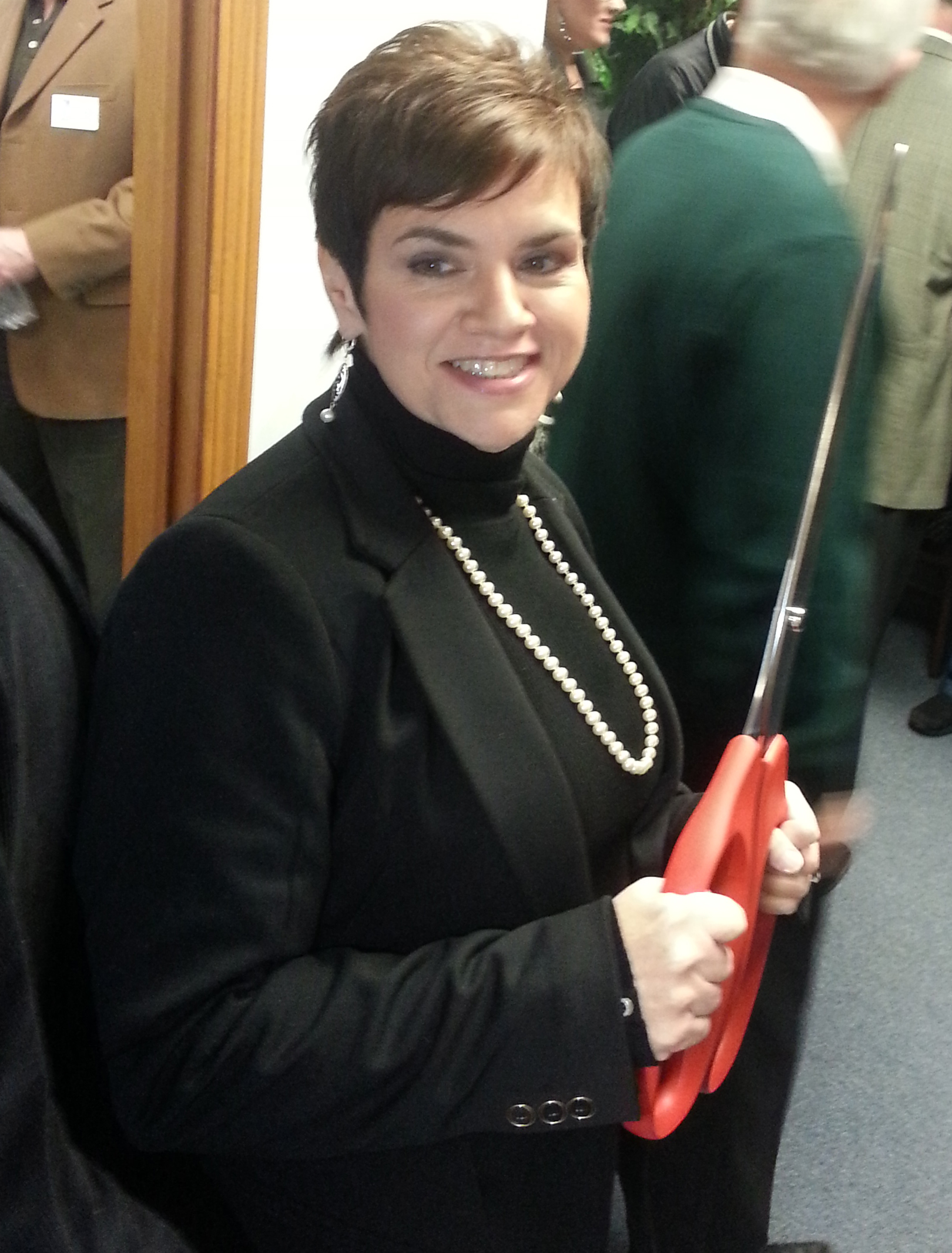 This is an image of Natalie Manley at her ribbon-cutting ceremony.